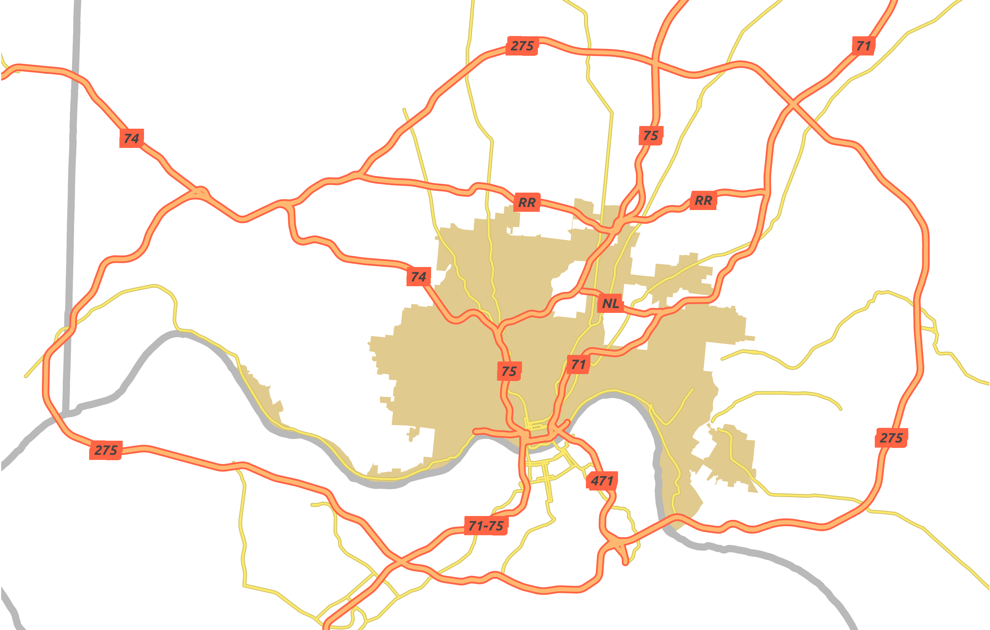 A map of highways and major artierials in the Greater Cincinnati area. This map may be incomplete, and may contain errors. Don't rely solely on it for navigation.